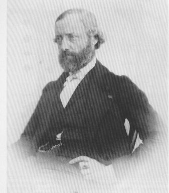 Viollet_le_duc_middel aged